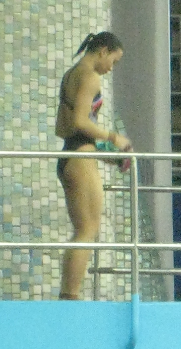 Third day of the 2013 FINA Diving World Series in Moscow. April 28, 2013.